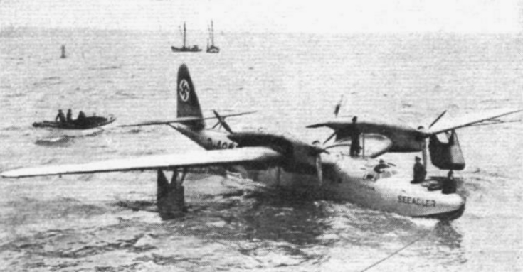 The German Lufthansa Dornier Do 26 "Seefalke" at anchor.